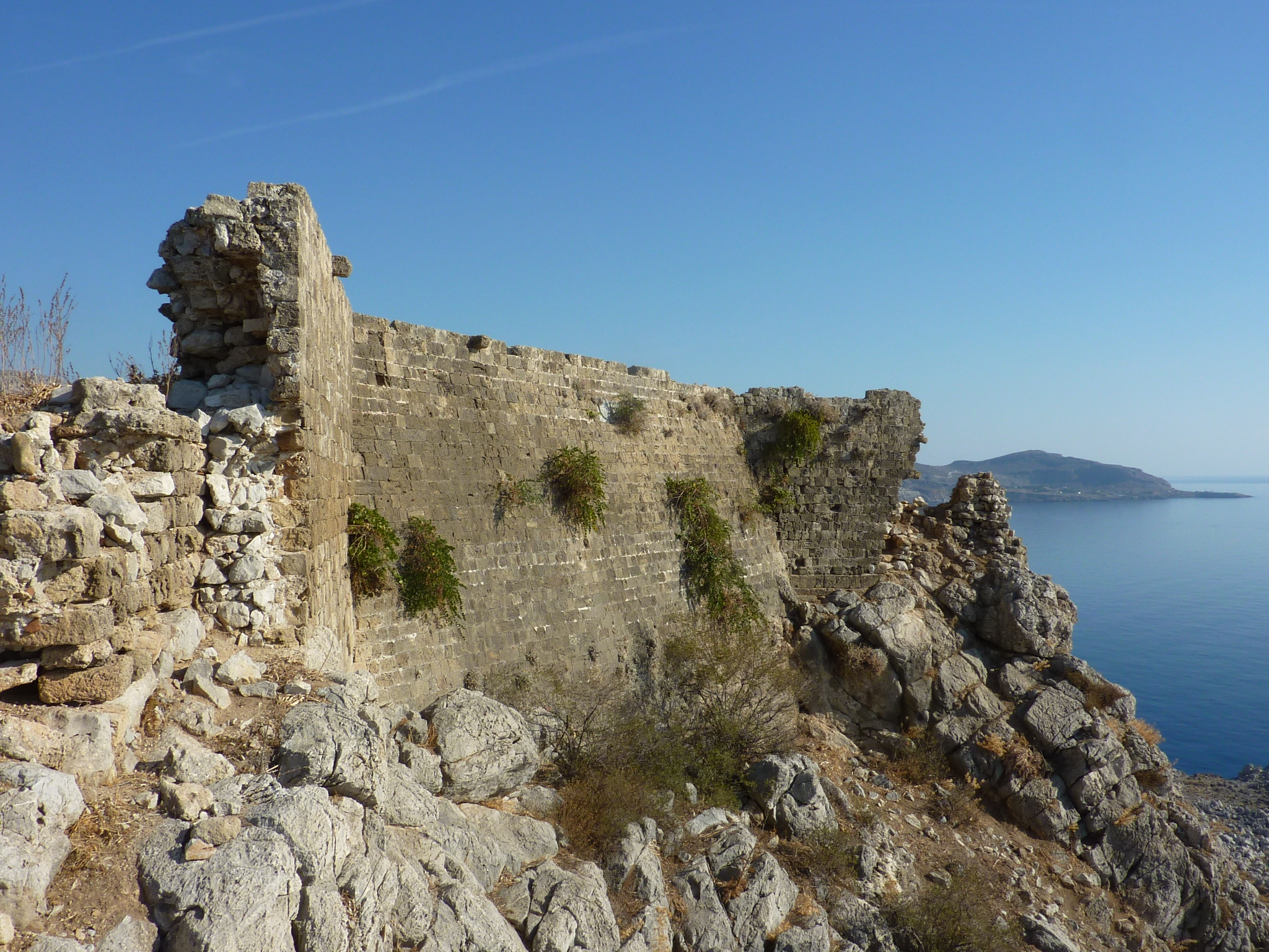 Charaki, Feraklos Castle